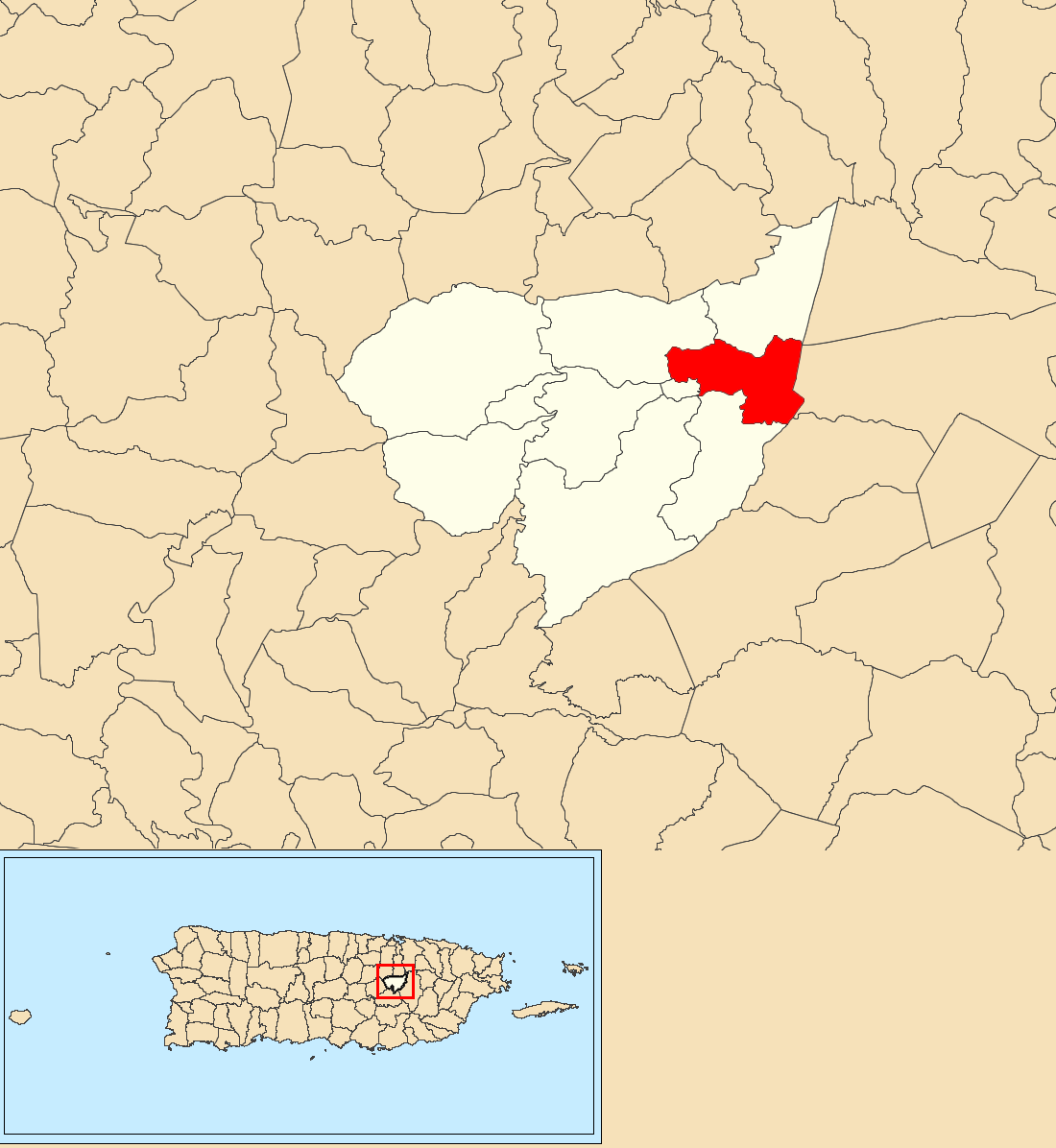 Bairoa, Aguas Buenas, Puerto Rico locator map